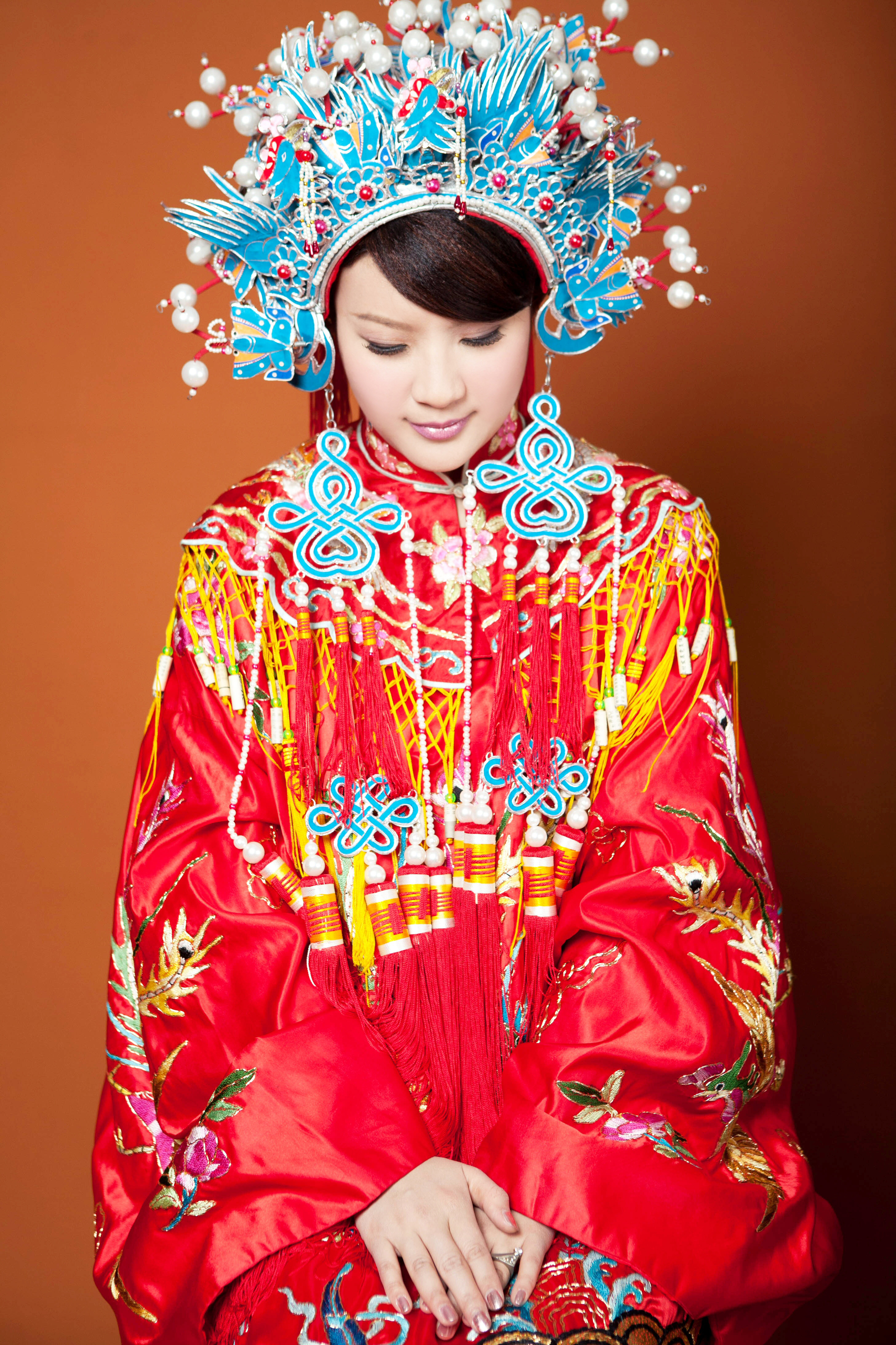 Traditional Chinese wedding dress with phoenix crown (鳳冠) headpiece, Qing Dynasty style. Still used in many parts of southeast Asia, including Taiwan.